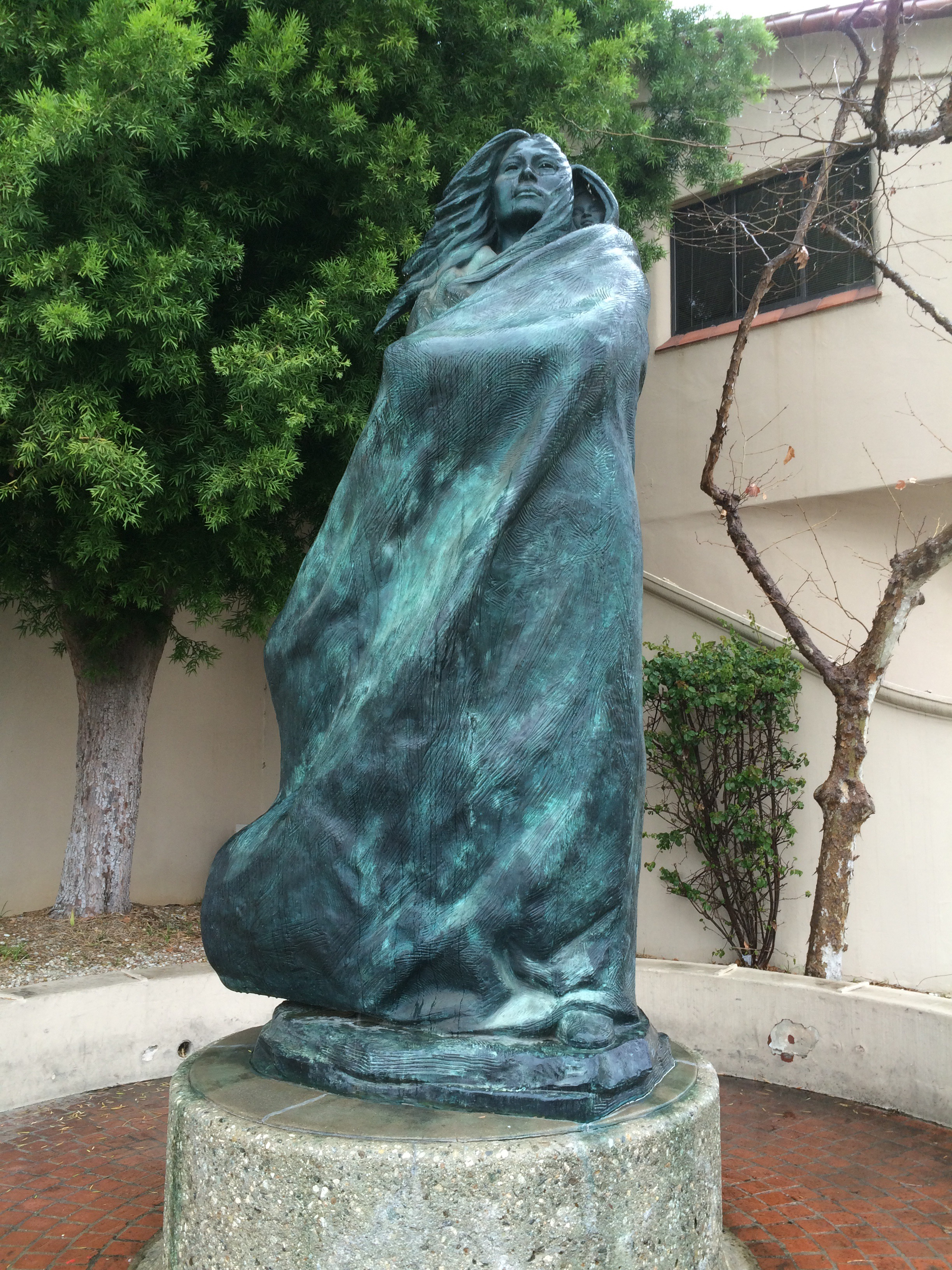 This is a statue of the famous lone woman of San Nicolas Island. It is found at the intersection of Victoria and State Street in Santa Barbara, California.